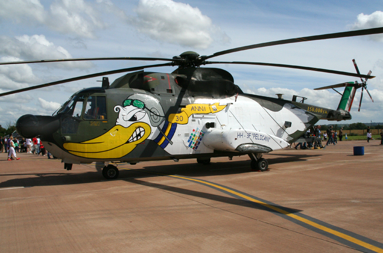 A Sikorsky S-61R helicopter at the 2007 Royal International Air Tattoo.